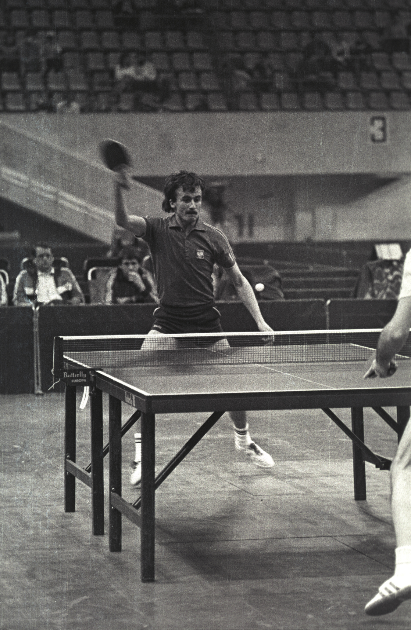 Andrzej Grubba in 1984